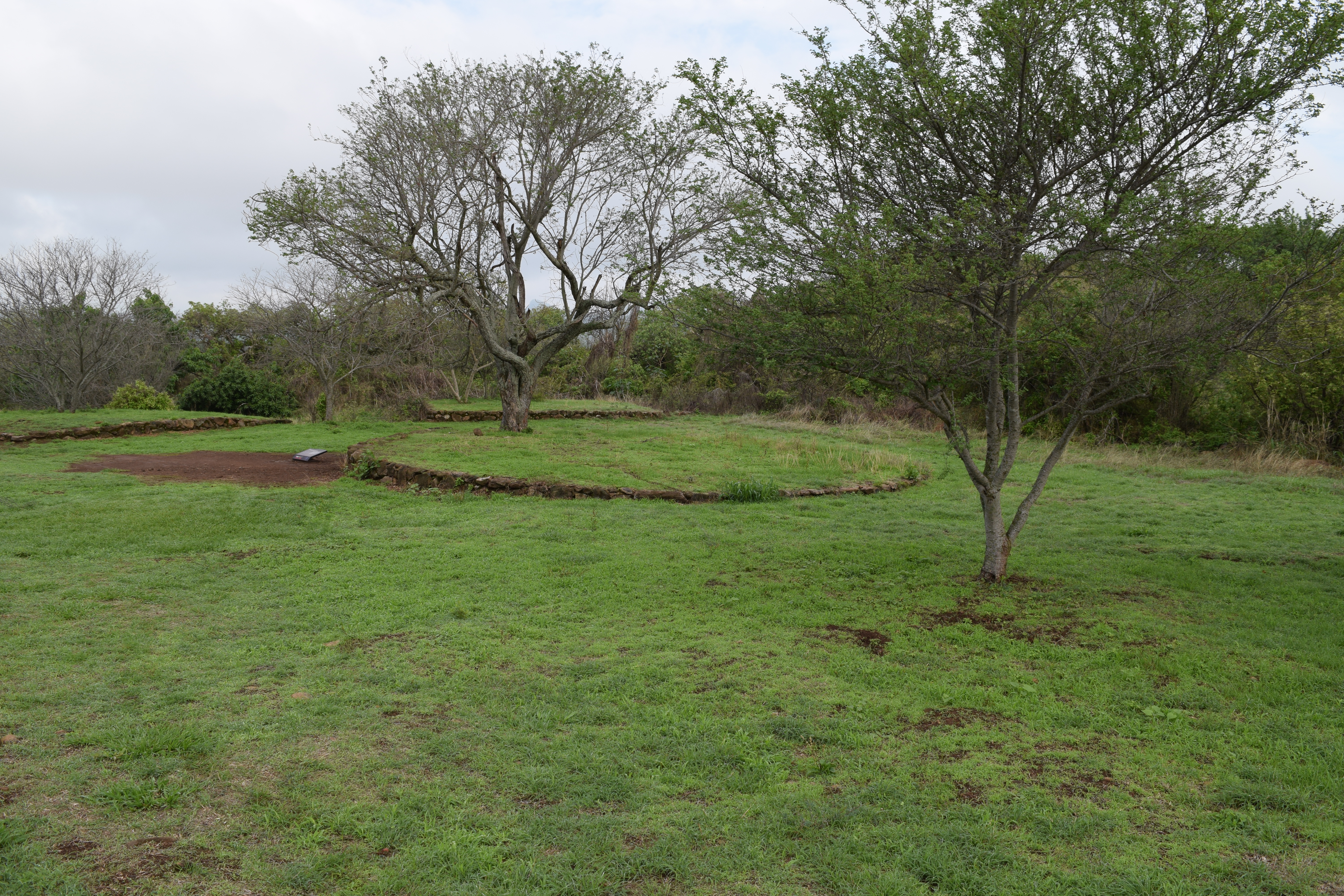 A view of Circle 6 at the site of Los Guachimontones, Jalisco, Mexico